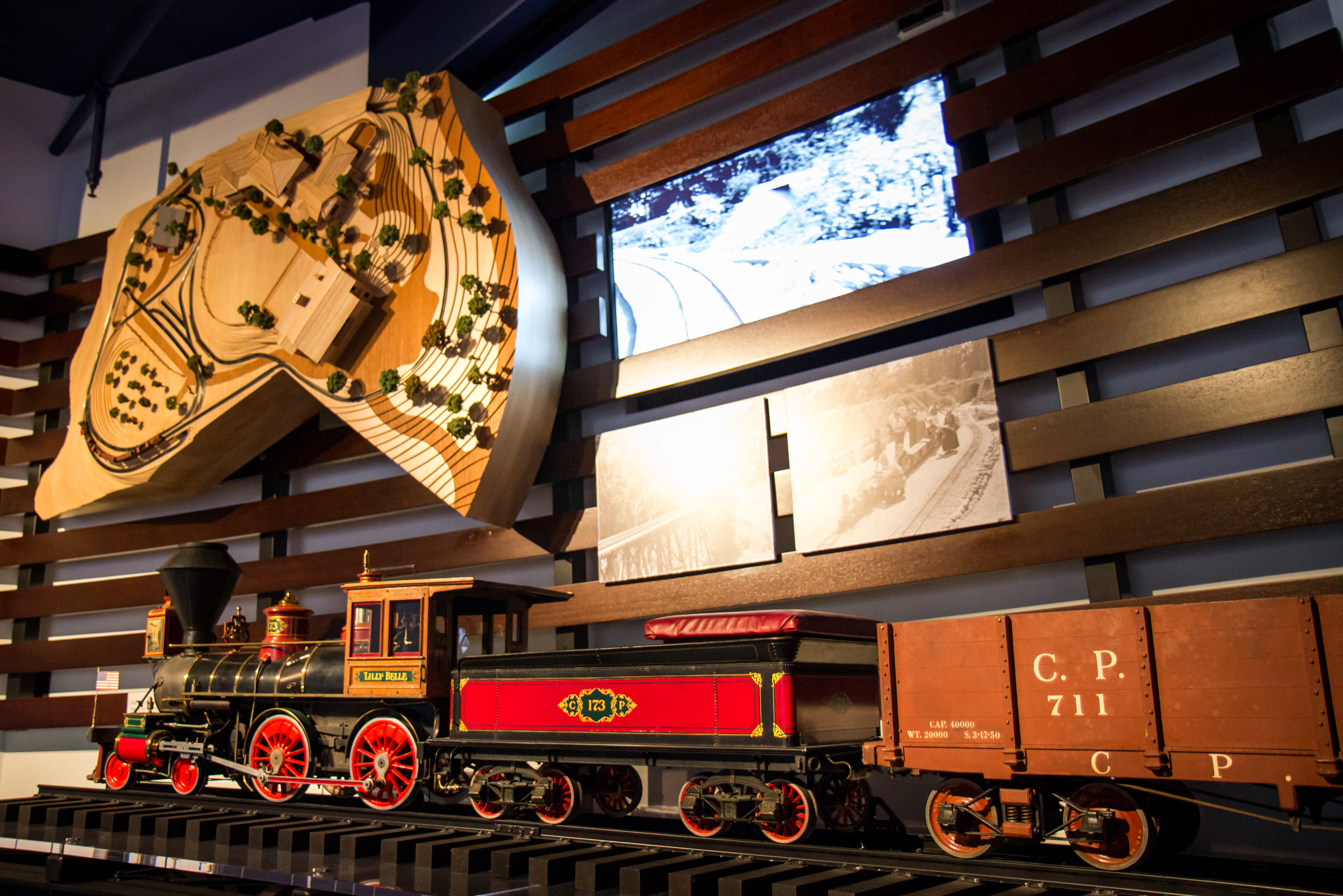 Lilly Belle locomotive from the Carolwood Pacific Railroad at the Walt Disney Family Museum.